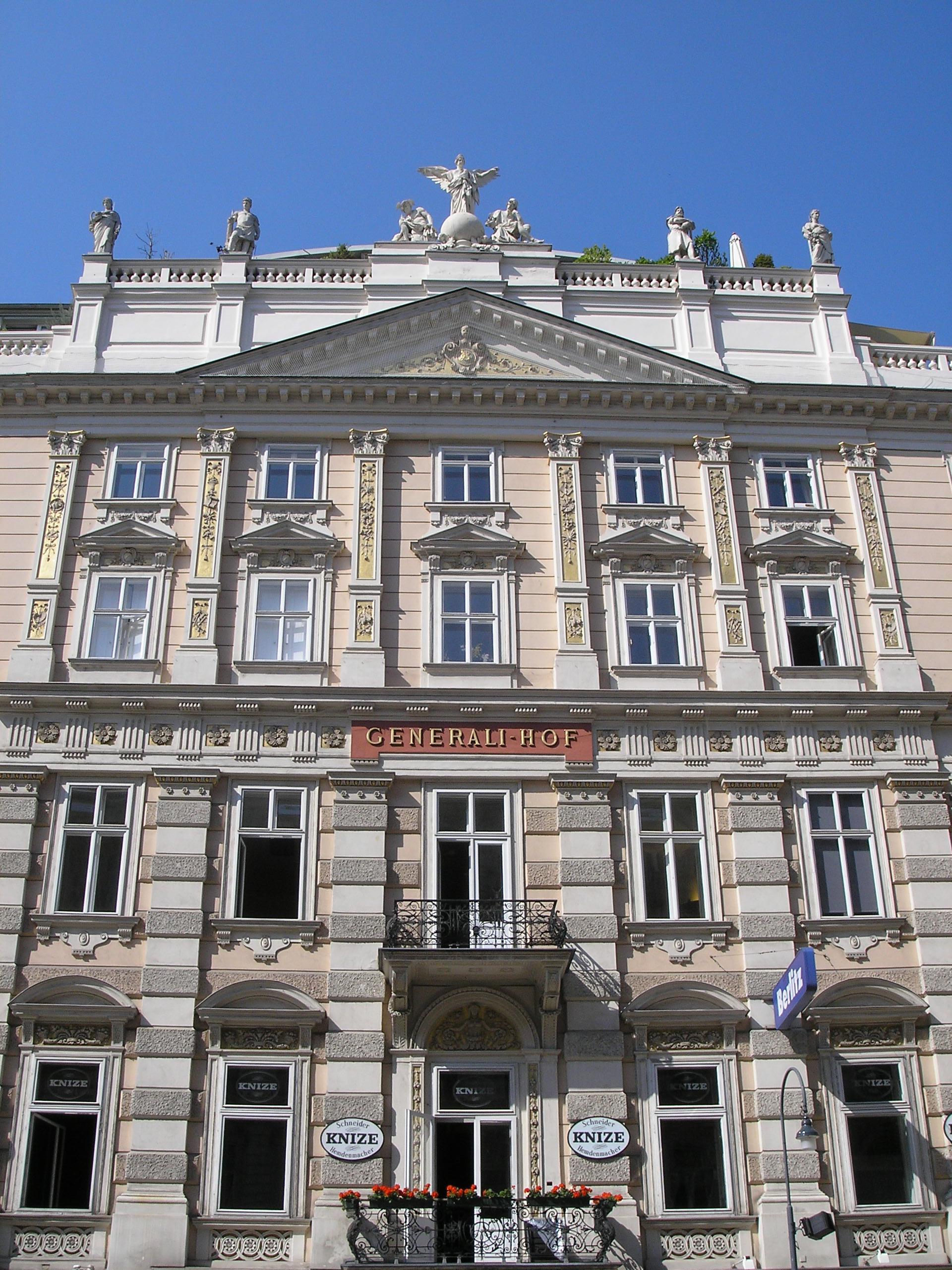 The Graben street in Vienna.